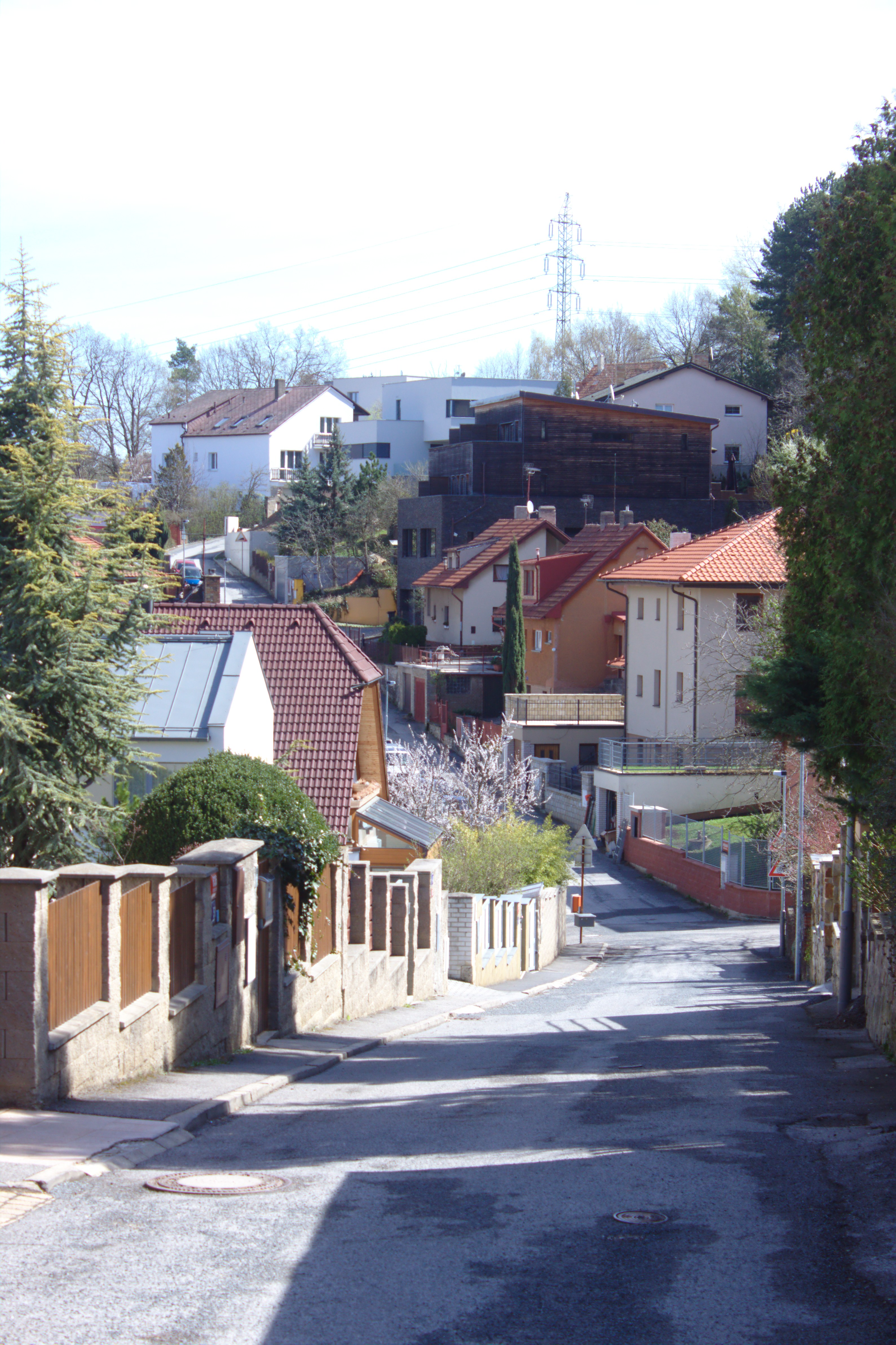 Villas in Prague-Stodůlky, Prague, CZ